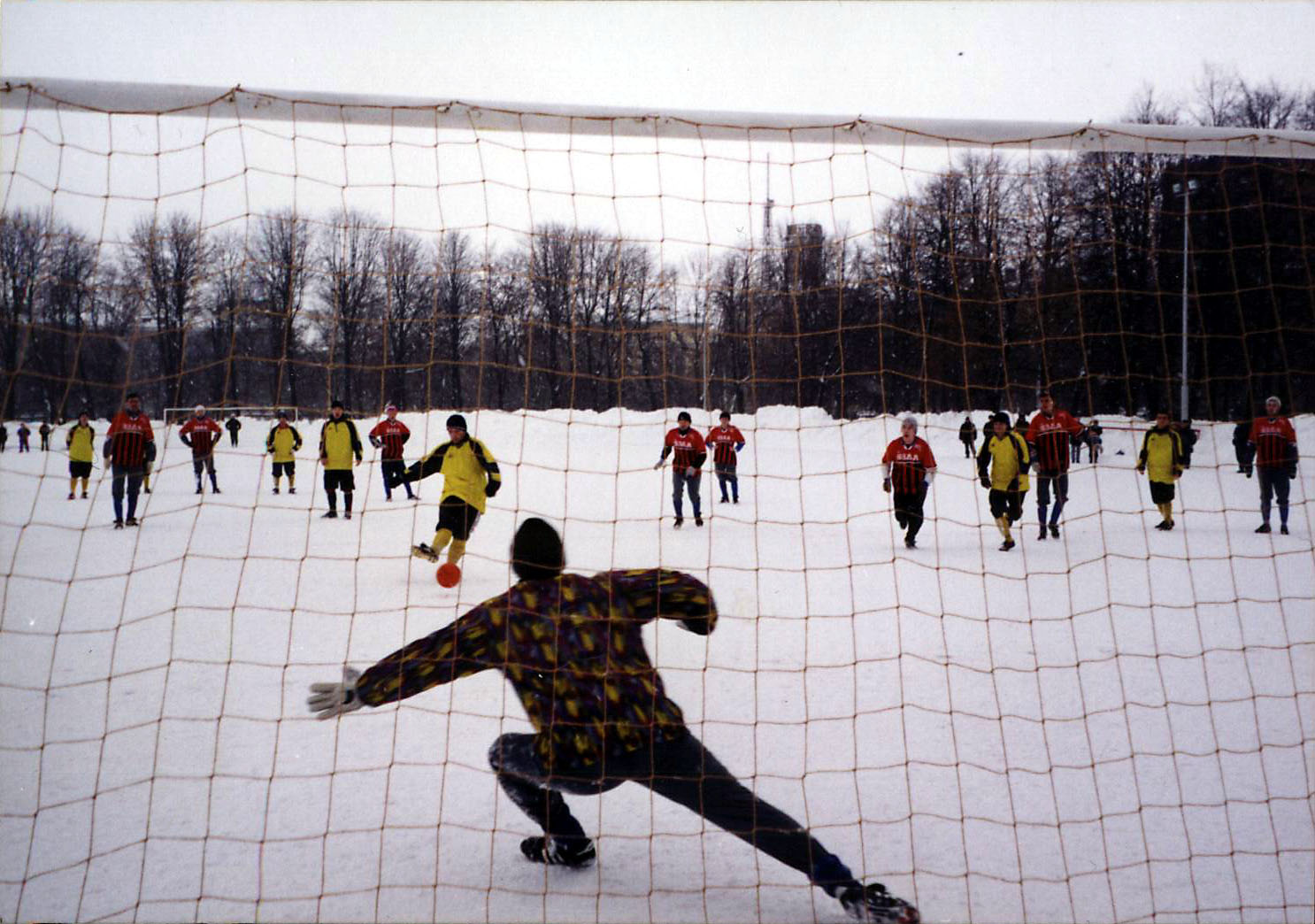 FC Neftyanik (Yaroslavl Oilers) vs FC Impulse. Yaroslavl, Russia. February 2001. The penalty kick from the Neftyanik.